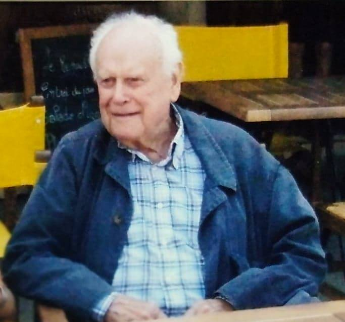 Maurice Delbez, at the Restaurant "La Renaissance", in Aurillac